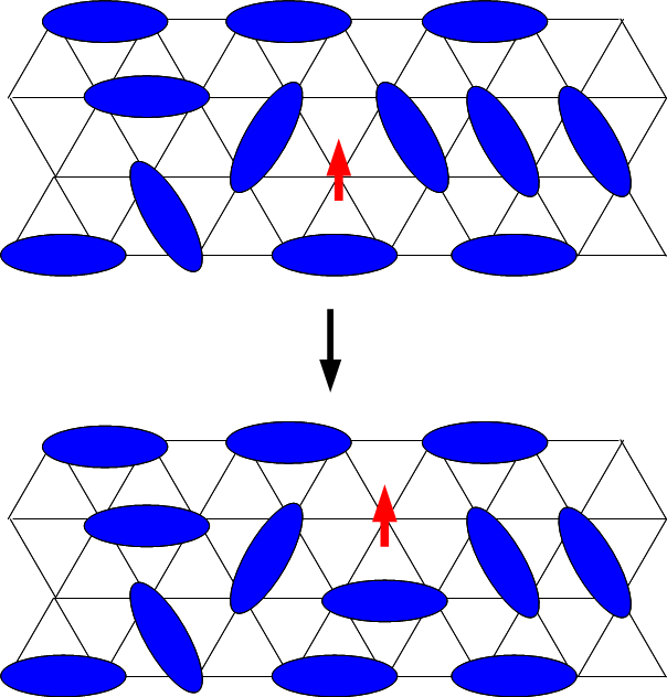 Picture of a spinon in a resonating valence bond material, which is basically an unpaired spin. It can move by adjusting nearby valence bonds.